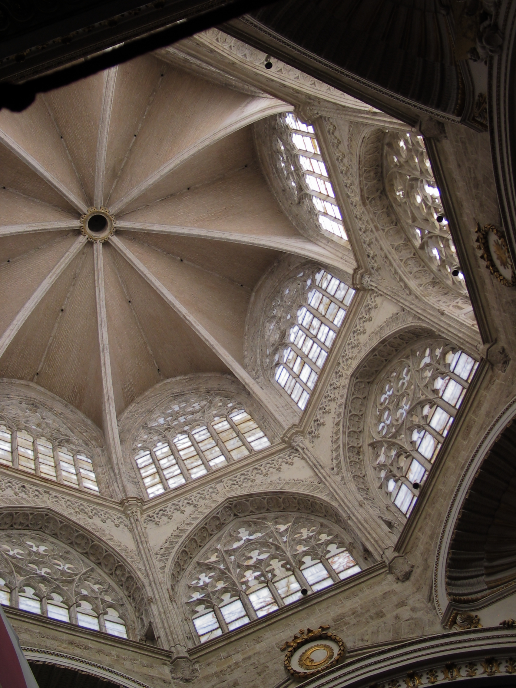 Alabaster Windows in the Cathedral of València, Spain.